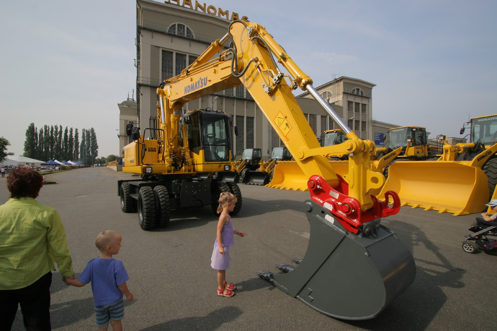 A Wheel Excavater.Made in Germany.KOMATSU HANOMAG.